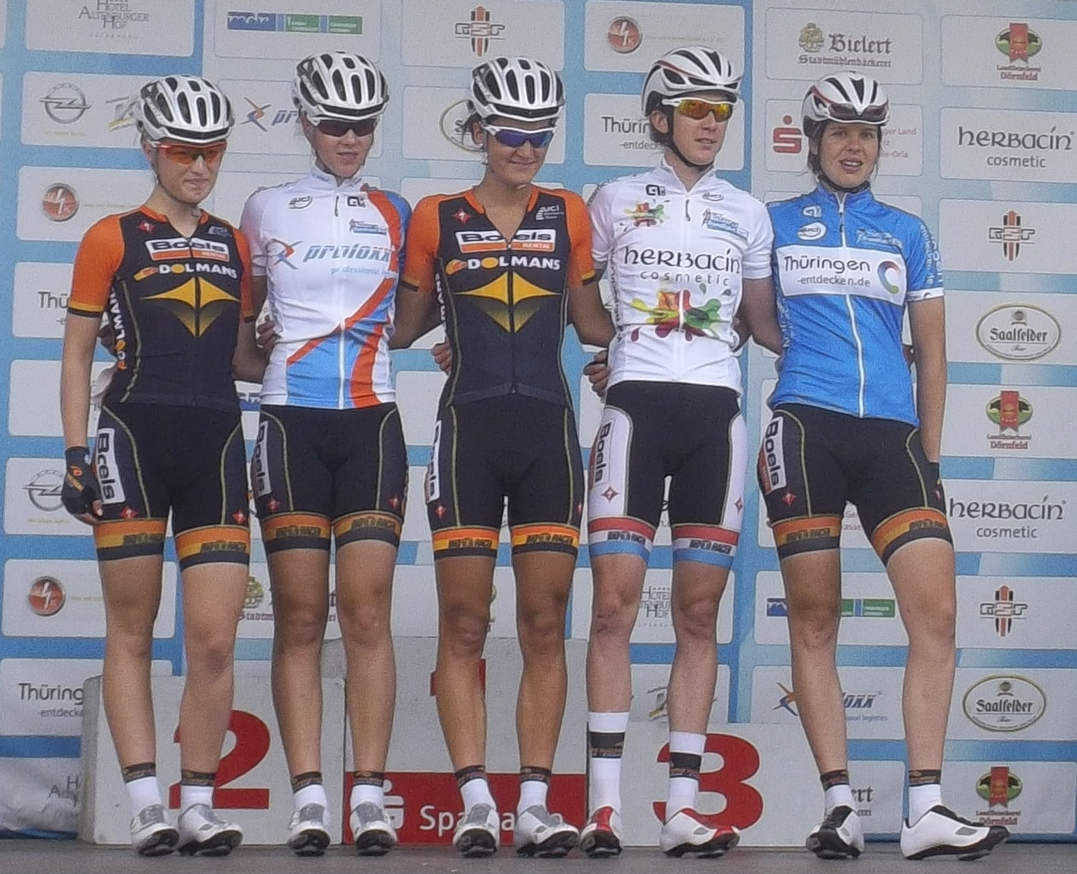 Boels Dolman team at Thuringen Rundfahrt 2014, presentation of stage 1.